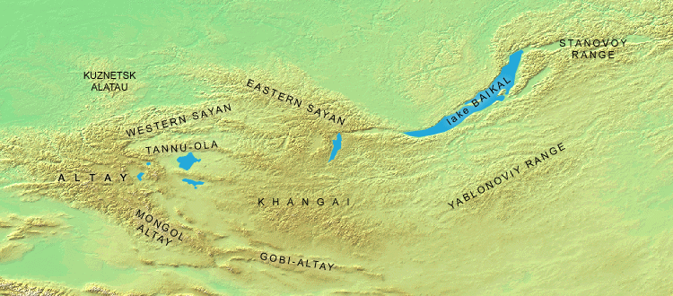 Mountains of Russia, Mongolia, Kazakhstan and China